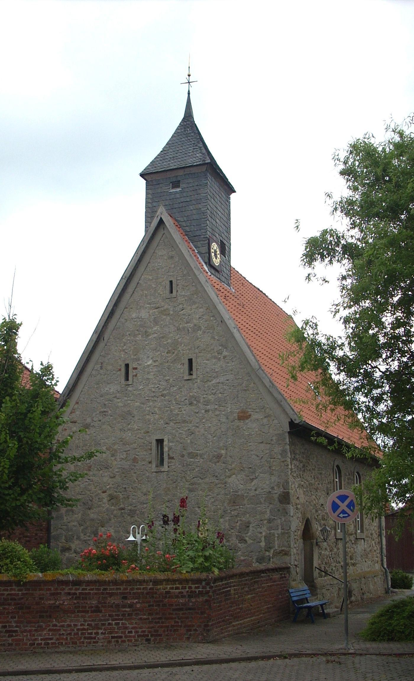 Lutheran Chapel Bilm, Sehnde, Germany